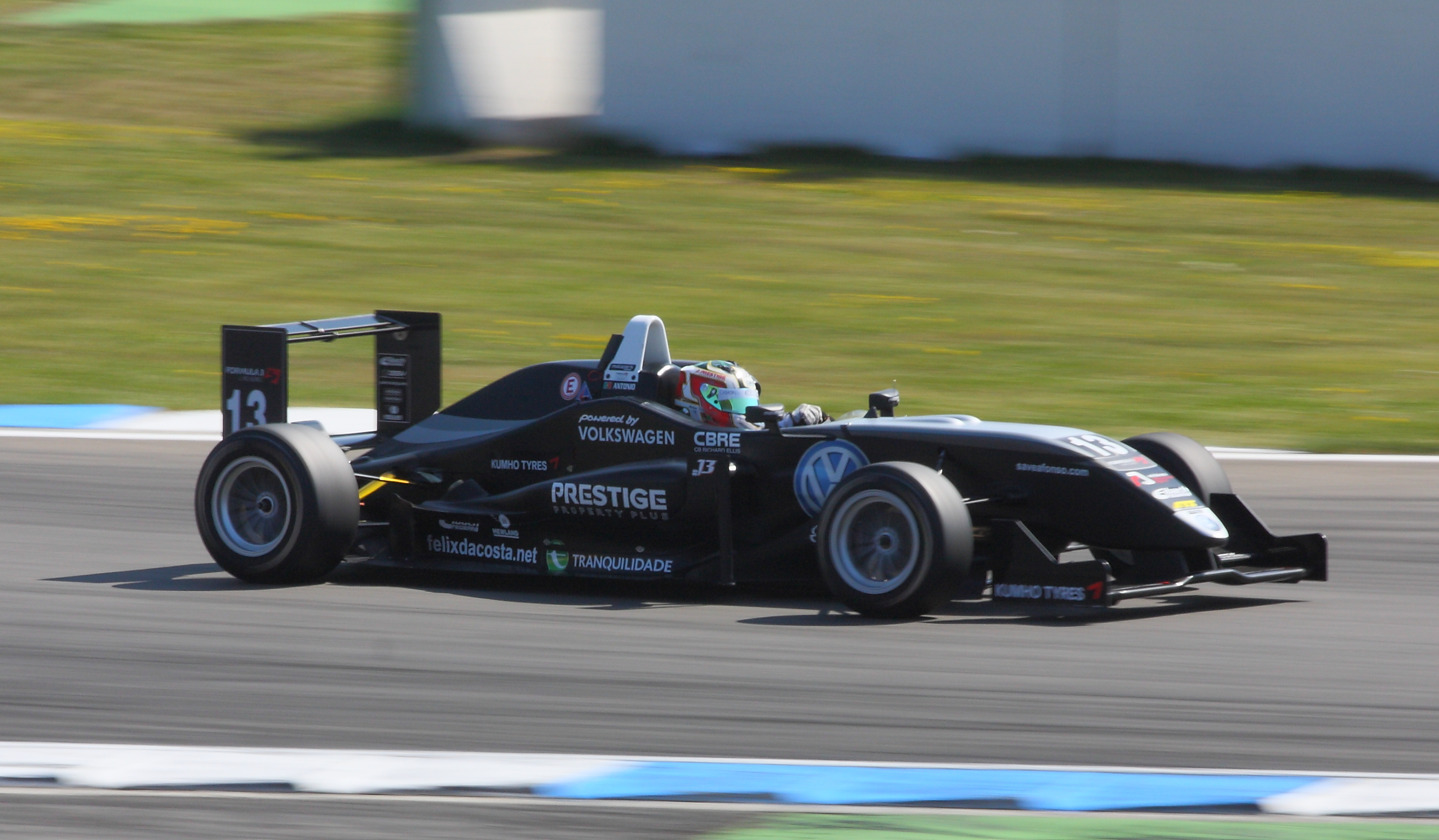 Formula 3 Euroseries, Hockenheimring; Euro Felix da Costa